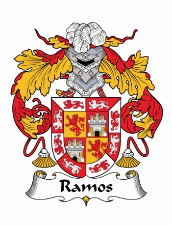 The Portuguese Branch of Ramos Family coat of arms